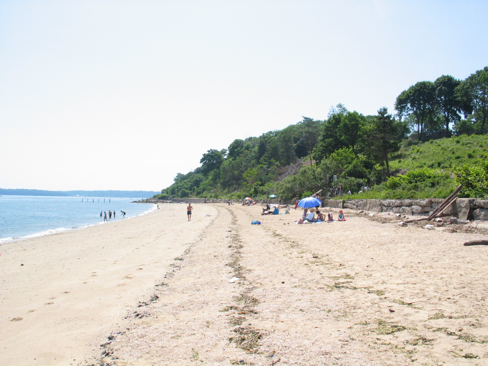 Beach at Sands Point Preserve